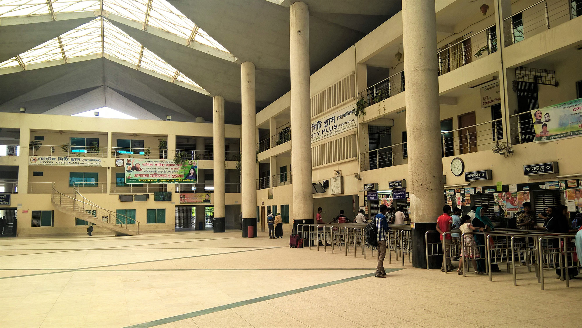 Rajshahi Railway Station is one of the modern structural building in bangladesh. It has total 5 platform. 3 storied building consists main platform, mosque and a residential hotel.